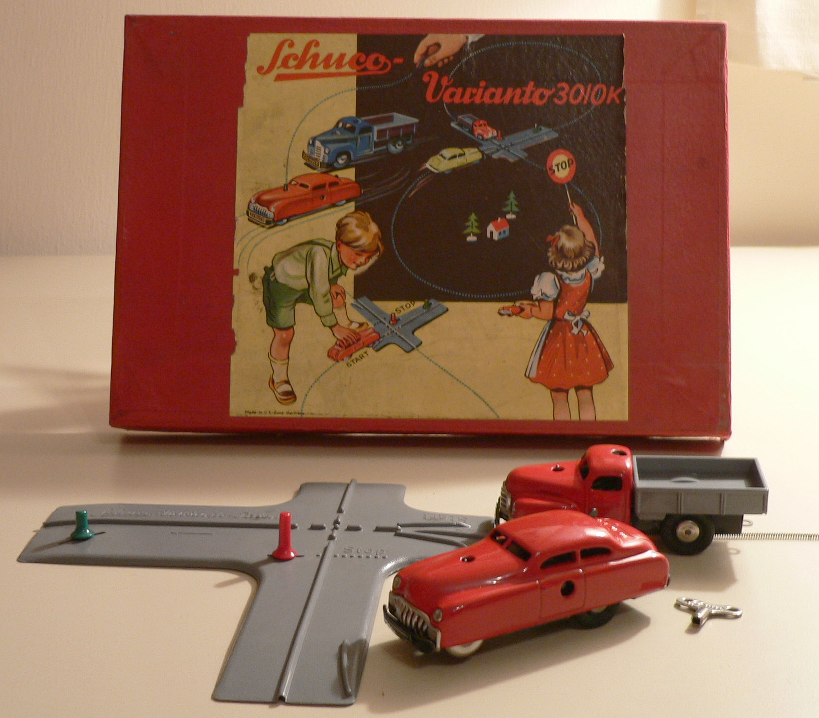 Toy car of Schuco (Varianto 30). ca. 1954